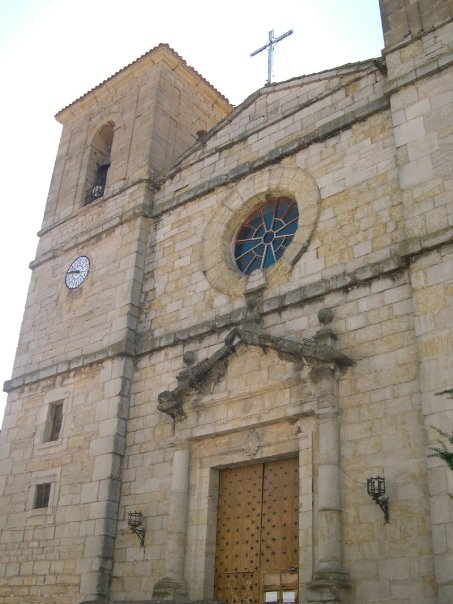 Facade of Church, Cornudella de Montsant, (Tarragona), (Catalonia), (Spain), 2008